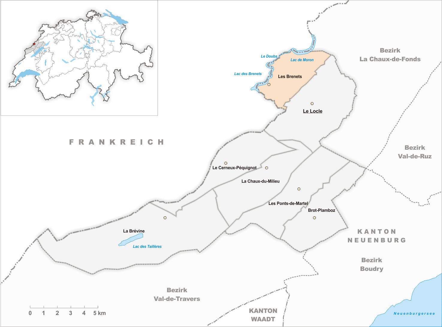 Municipality Les Brenets